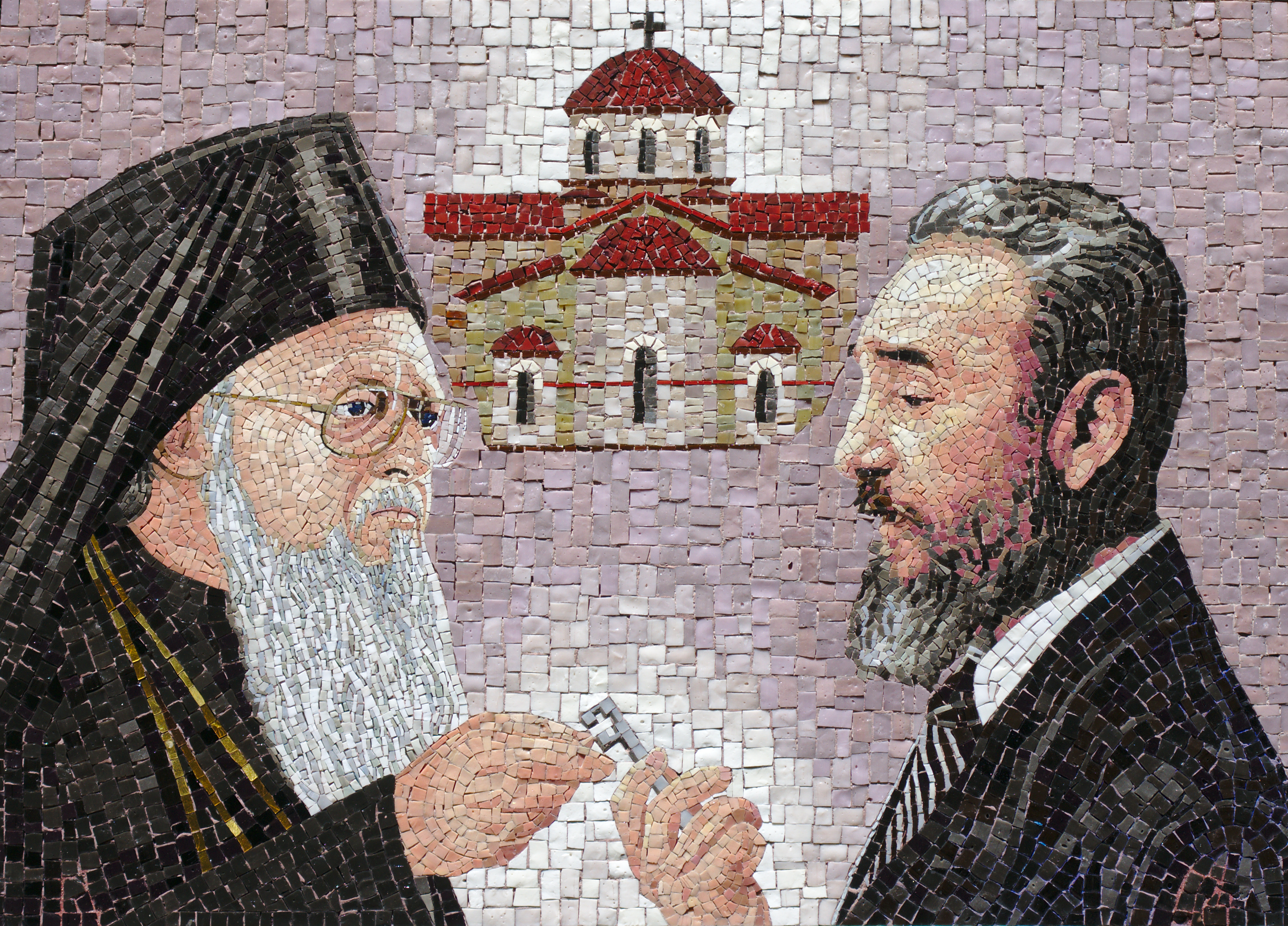 Mosaic outside the St Nikolaos Greek Orthodox Church in Havana, Cuba depicting the hand-over of the key. Below the mosaic, the following text is shown in spanish, greek and english: “This cathedral is a gift from the people of Cuba to the Greek Orthodox Church and to ecumenical patriarch Bartholomew” Fidel Castro Ruz November 2003